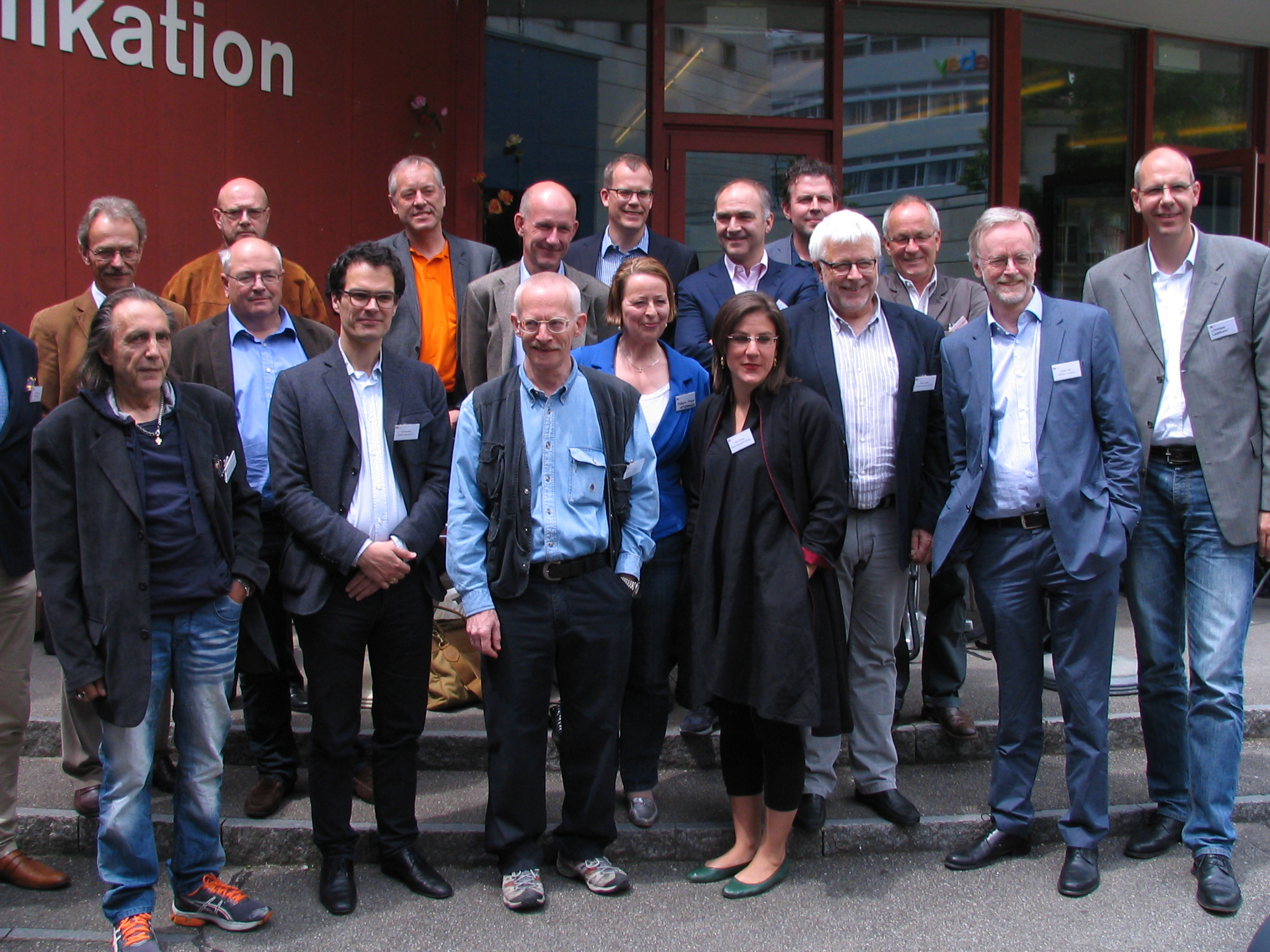 Group photo of the correspondents of the Swiss Radio and Television (SRF) at their public meeting in the museum of communication in Bern